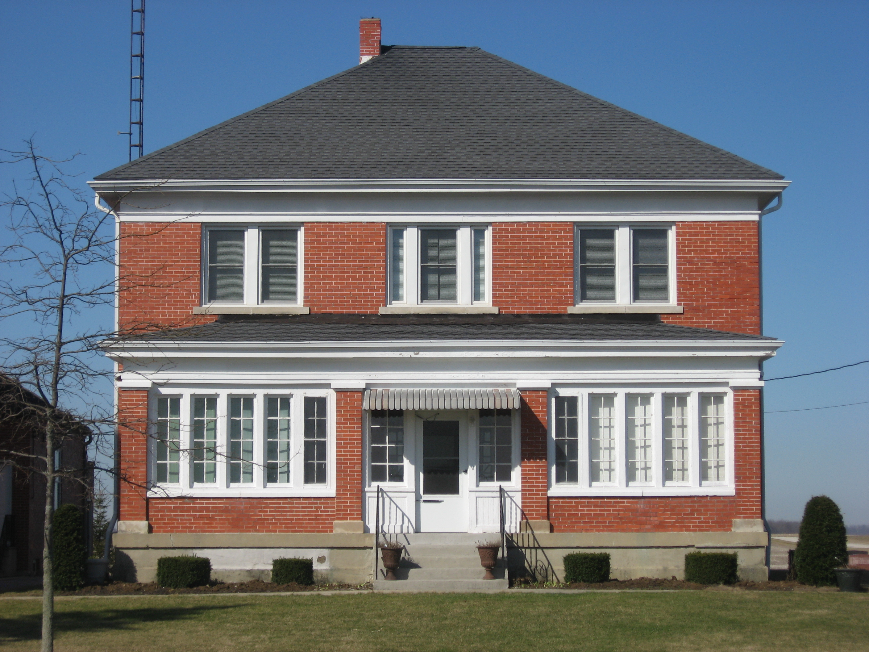 Front of St. Joseph's Catholic Rectory, located at the intersection of State Route 364 and Minster-Egypt Pike in Egypt, an unincorporated community west of Minster in Jackson Township, Auglaize County, Ohio, United States. The rectory (built in 1905) and the adjacent St. Joseph's Church (built in 1887) are listed together on the National Register of Historic Places as a part of the Cross-Tipped Churches of Ohio Thematic Resources.